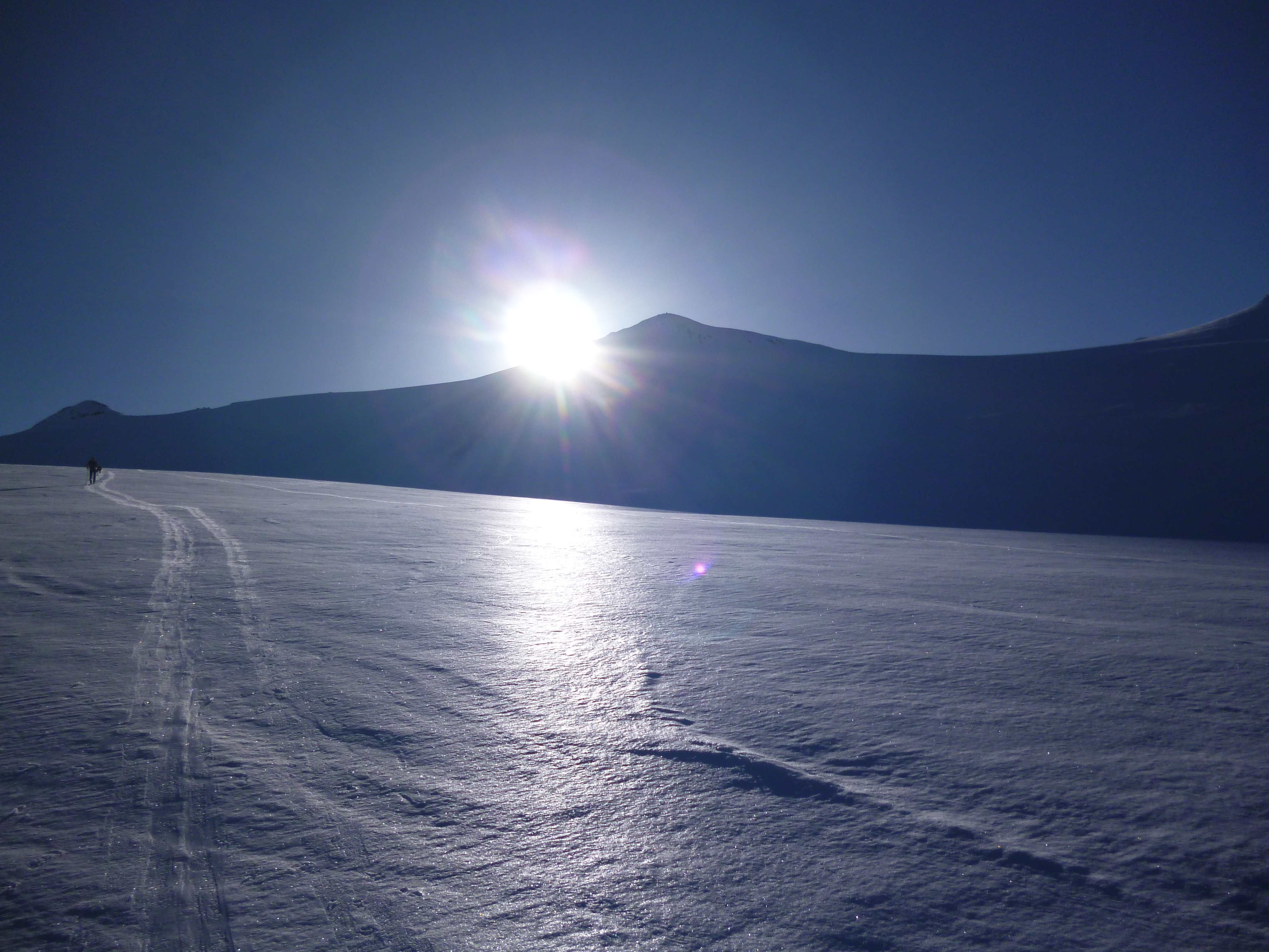 Firnspiegel on Rhone Glacier